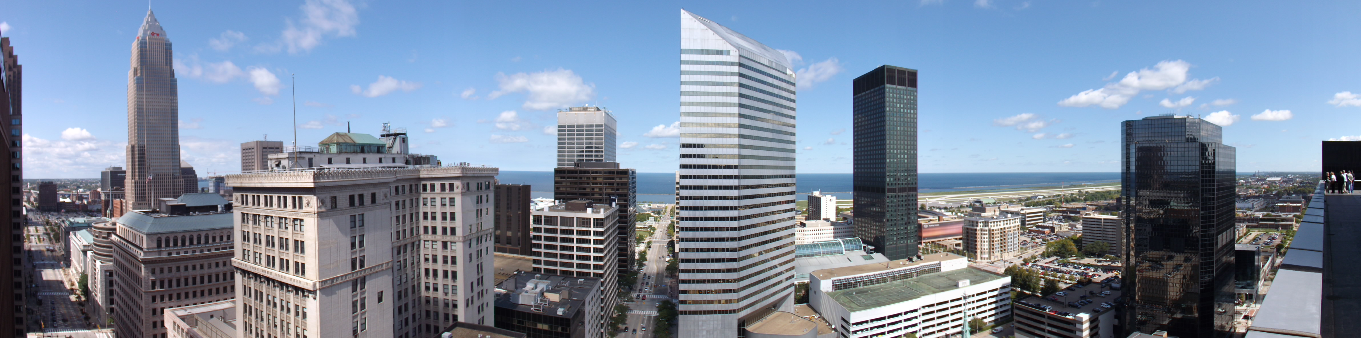 View of downtown Cleveland from the East Ohio Building